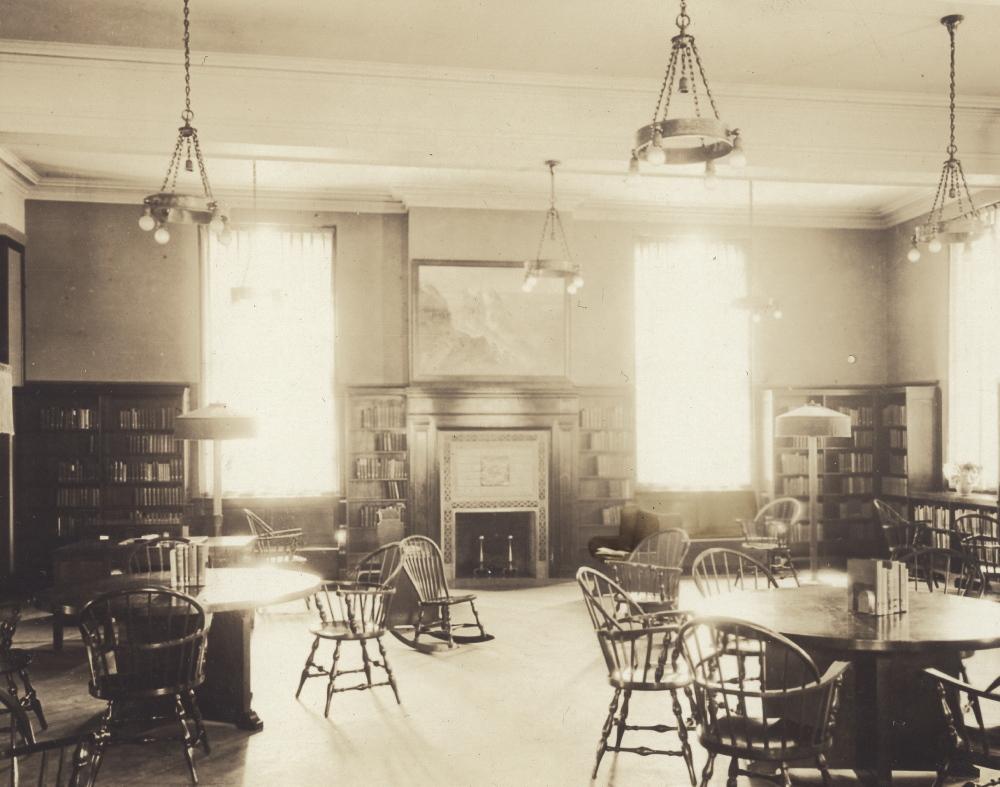 An undated photo of the Mount Pleasant Neighborhood Library - likely taken around the time it opened in May 1925. The benches flanking the fireplace here were recently found in a D.C. Public Library storage facility. The Friends of the Library paid to have them refinished, and they were returned to the branch on 4/2/08.